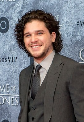 Kit Harington at HBO's "Game Of Thrones" Season 3 Seattle Premiere at Cinerama